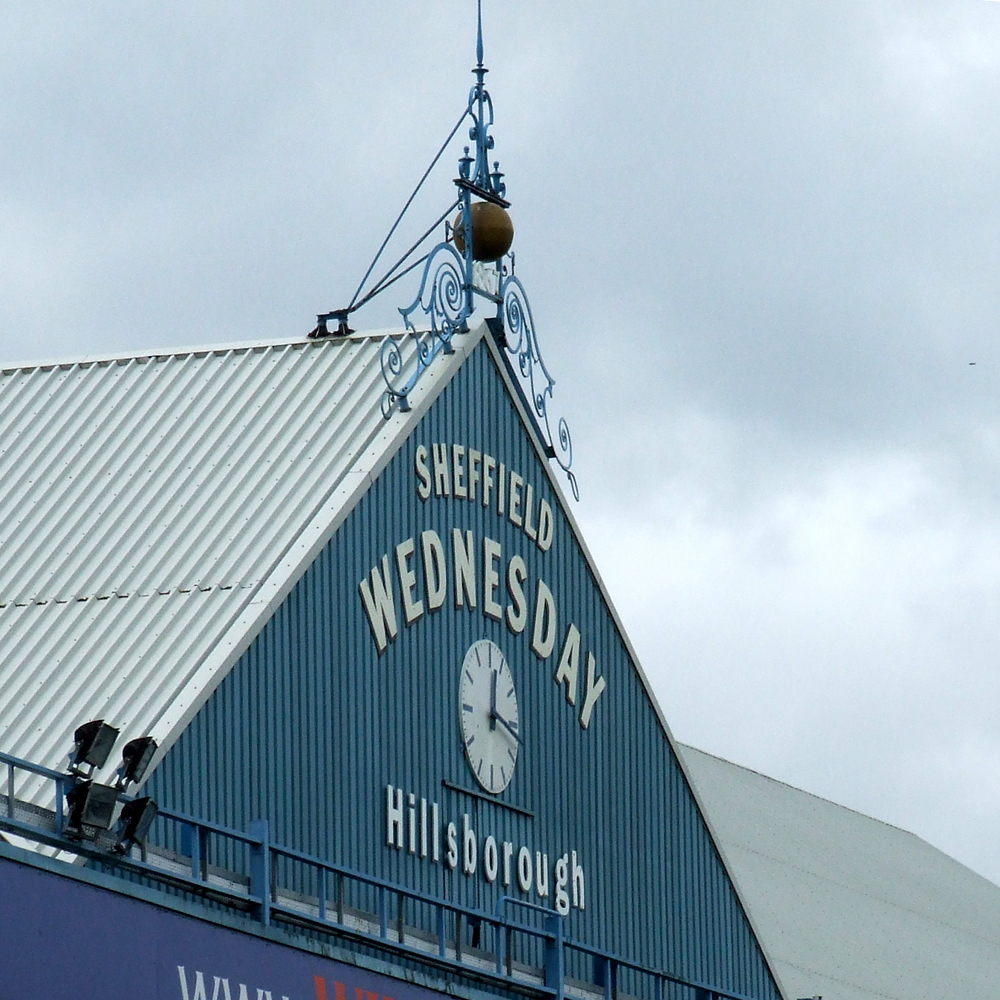 Clock and finial above South Stand at Hillsborough Stadium